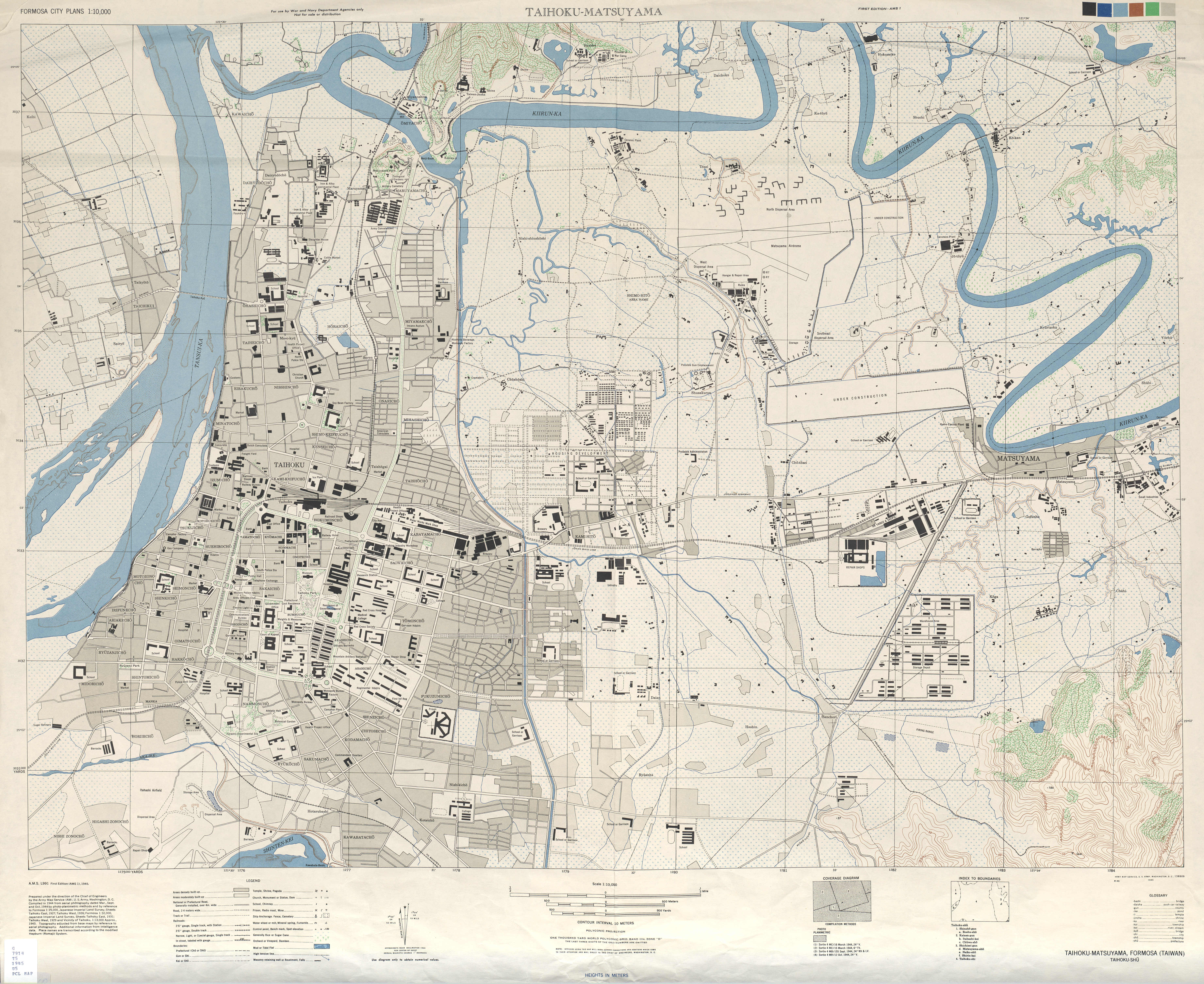 1945 map of Taihoku-Matsuyama (Formosa City Plan 1:10,000) prepared by US Army Map Service on direction of the Chief on Engineers